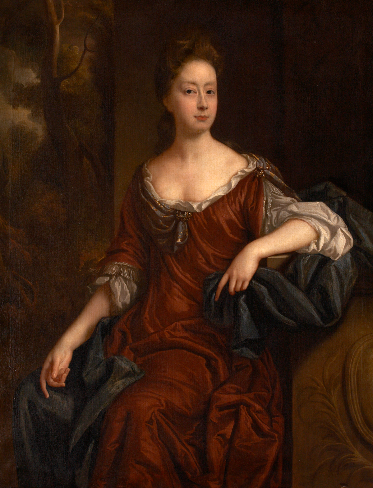 Mary Morice (d.1698), daughter of Sir William Morice, 1st Baronet (c.1628-1690) of Werrington, Devon, and 3rd wife of Sir John Carew, 3rd Baronet (1635-1692) of Antony, Cornwall. Painted by John Riley, c.1682, oil on canvas, 127 x 101.5 cm. Collection of Antony House, National Trust. Accession number 352350, on loan from the Trustees of Antony.